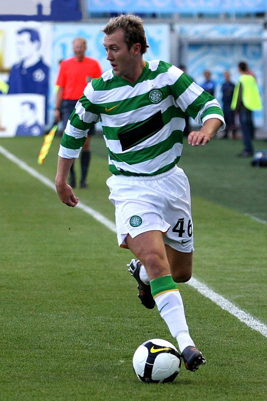 Aiden McGeady (born 4 April 1986 in Glasgow) is a Irish footballer.